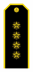 Rank insignia of the Russian Federation´s armed forces (1994-2010), here Sea war fleet (Navy) "Admiral of the fleet” (OF9) – shoulder strap (black) dress uniform.